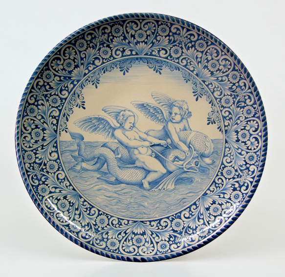 Ornamental maiolica plate of Laterza, Apulia, Italy.